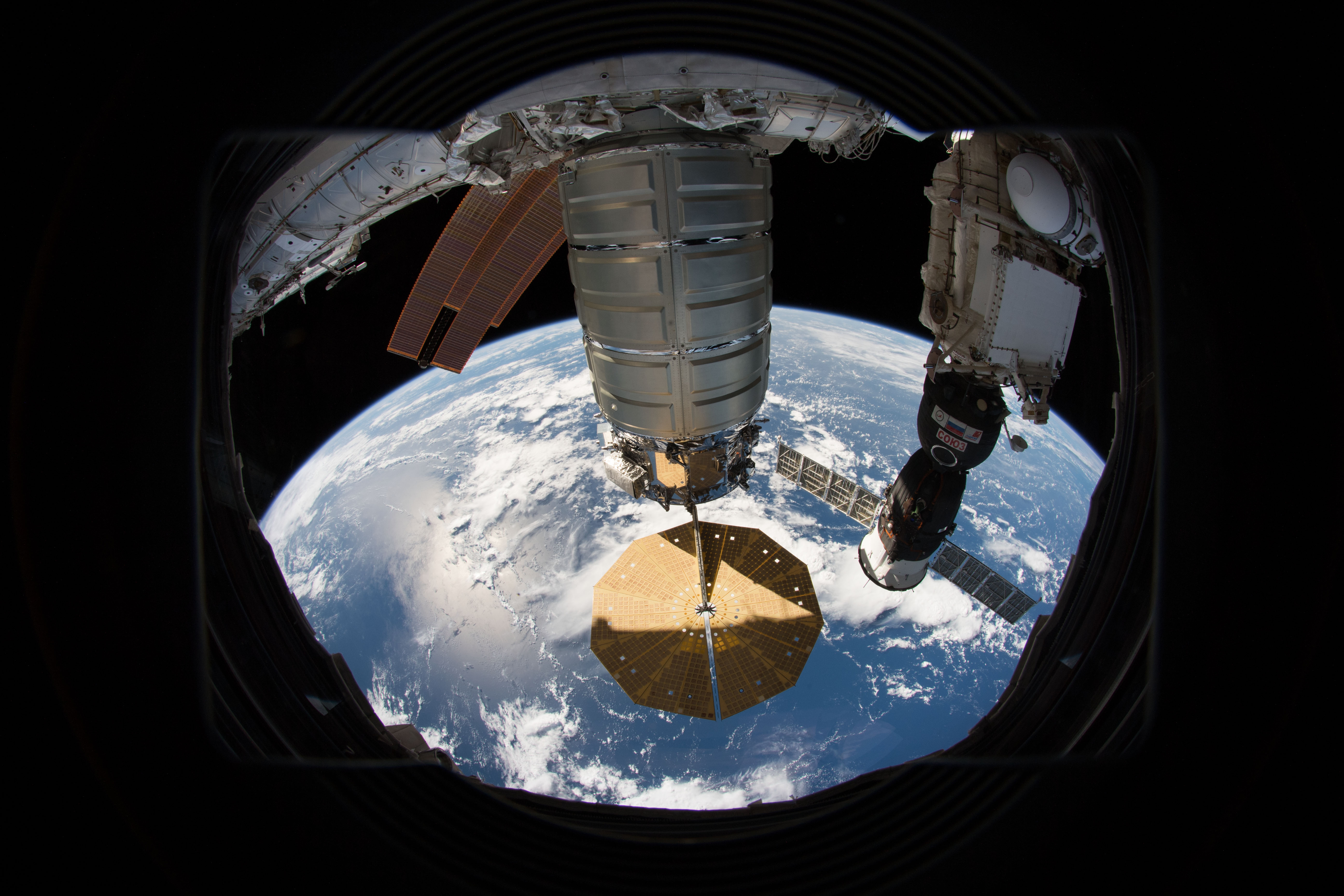 This fish-eye lens view from a window on the International Space Station shows the Northrop Grumman (formerly Orbital ATK) Cygnus commercial space freighter with its cymbal-like Ultra-Flex solar arrays attached to the Unity module. To its right is the Soyuz MS-09 spacecraft docked to the Rassvet module. Cygnus is due to end its mission July 15. The Soyuz MS-09 is planned to return to Earth Dec. 13, carrying Sergey Prokopyev, Alexander Gerst and Serena Auñón-Chancellor home after 192 days in space.